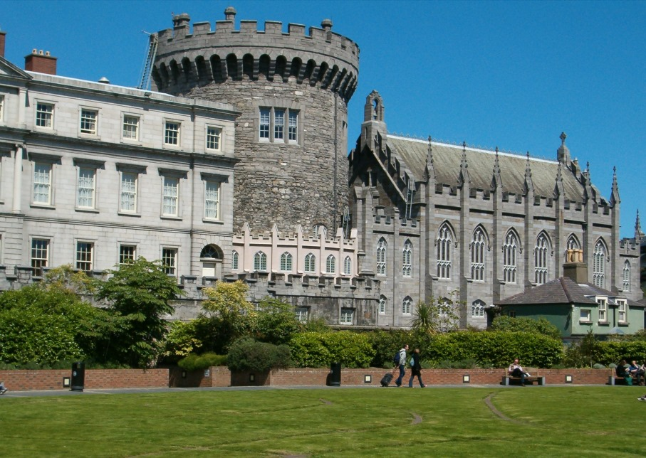 A back view of Dublin Castle from a garden (of Cheaster Beatty Library)